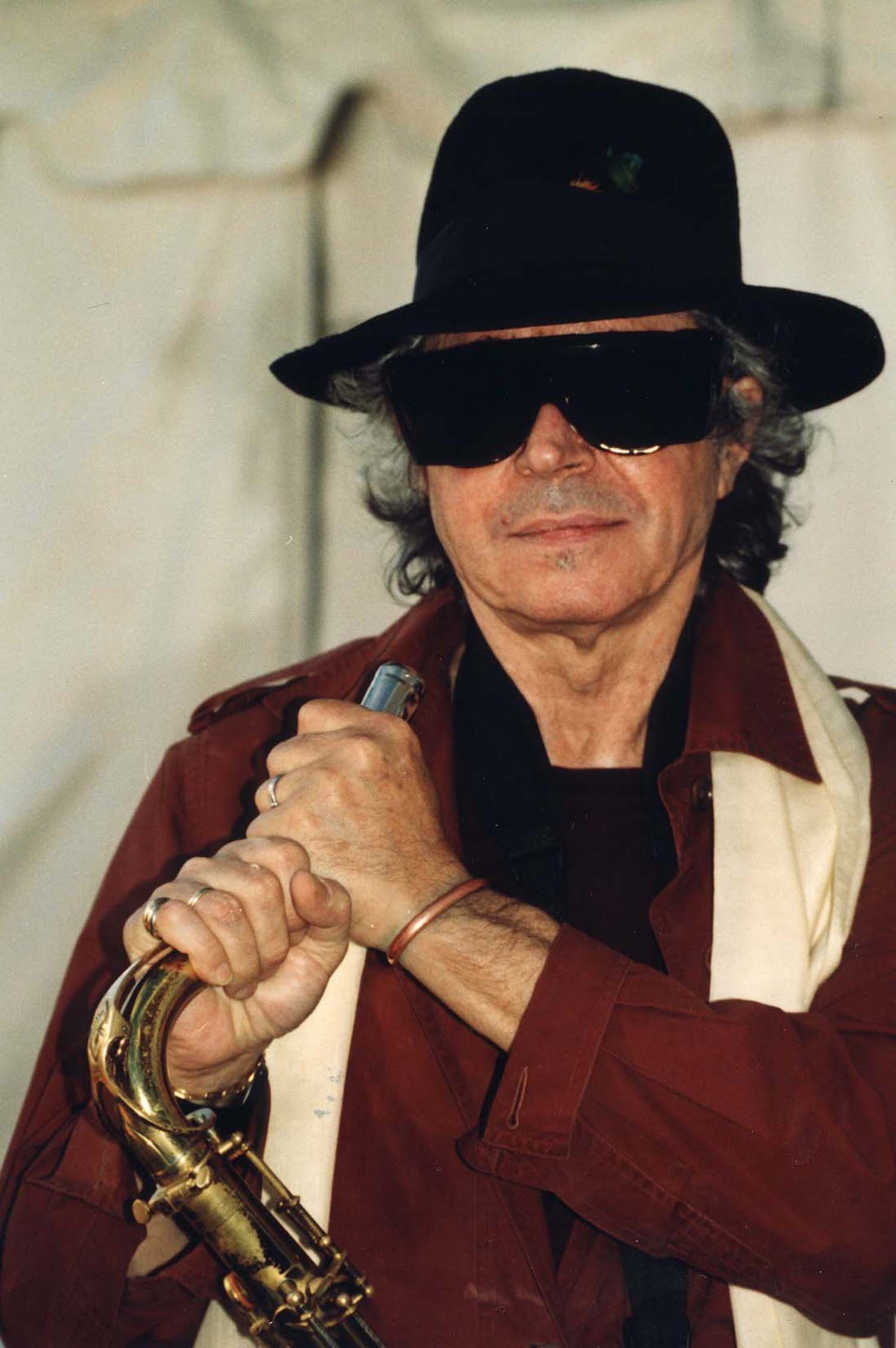 July 9, 1999 From Baltimore's top annual festival " Artscape "